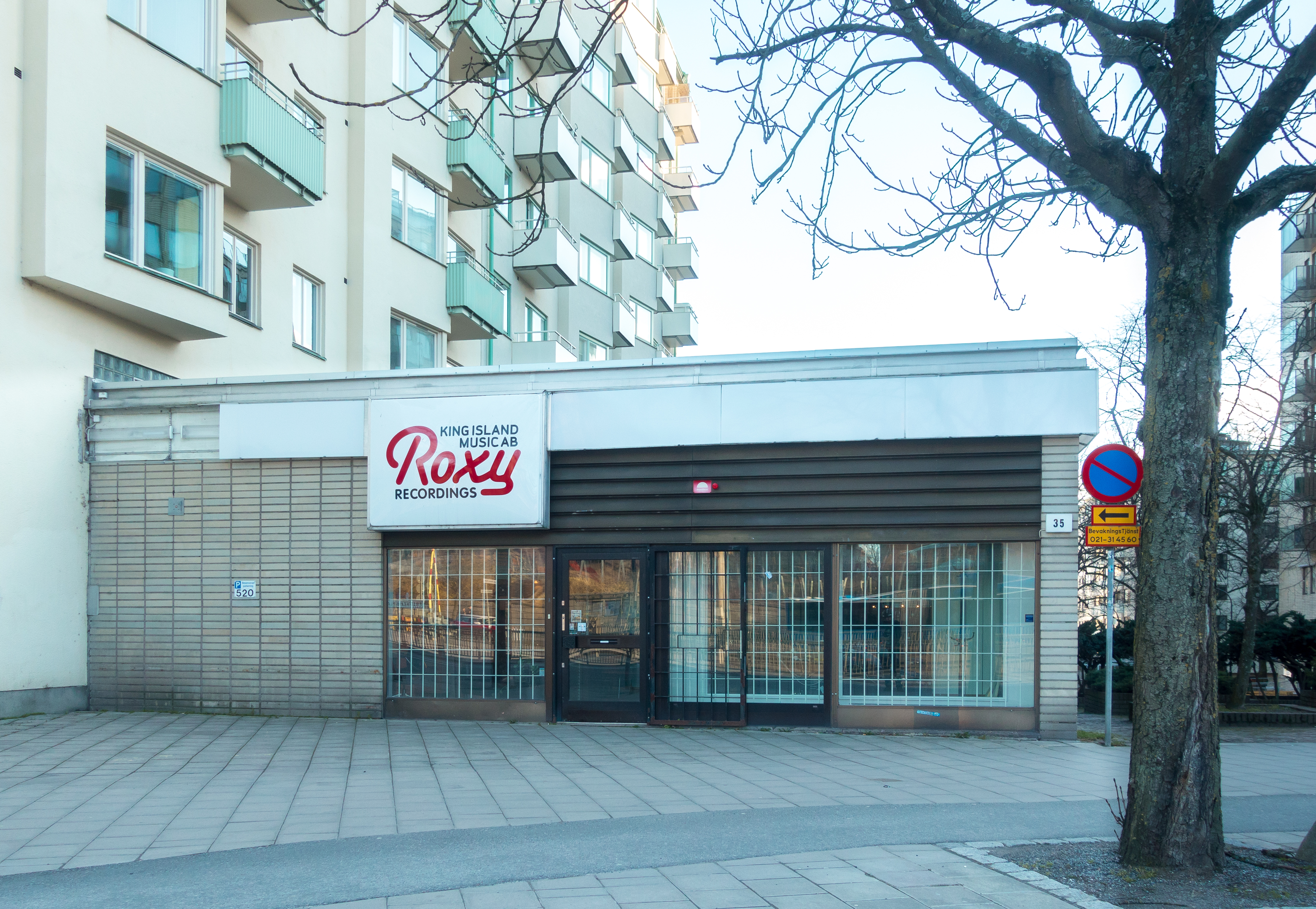 King Island Roxystar's Recordings AB, in the former Cheiron's premises on Kungsholmen in Stockholm.